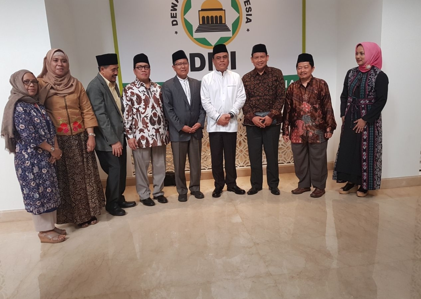 Delegasi Muhibbah Dai Serumpun 5 Negara 2018. (Menteri PAN Syafruddin bersama Bambang Santoso, K.H Cholil Nafis, Marissa Haque, K.H Muh. Agus, K.H Ahmad Zubaidi dan Menik Haryani)